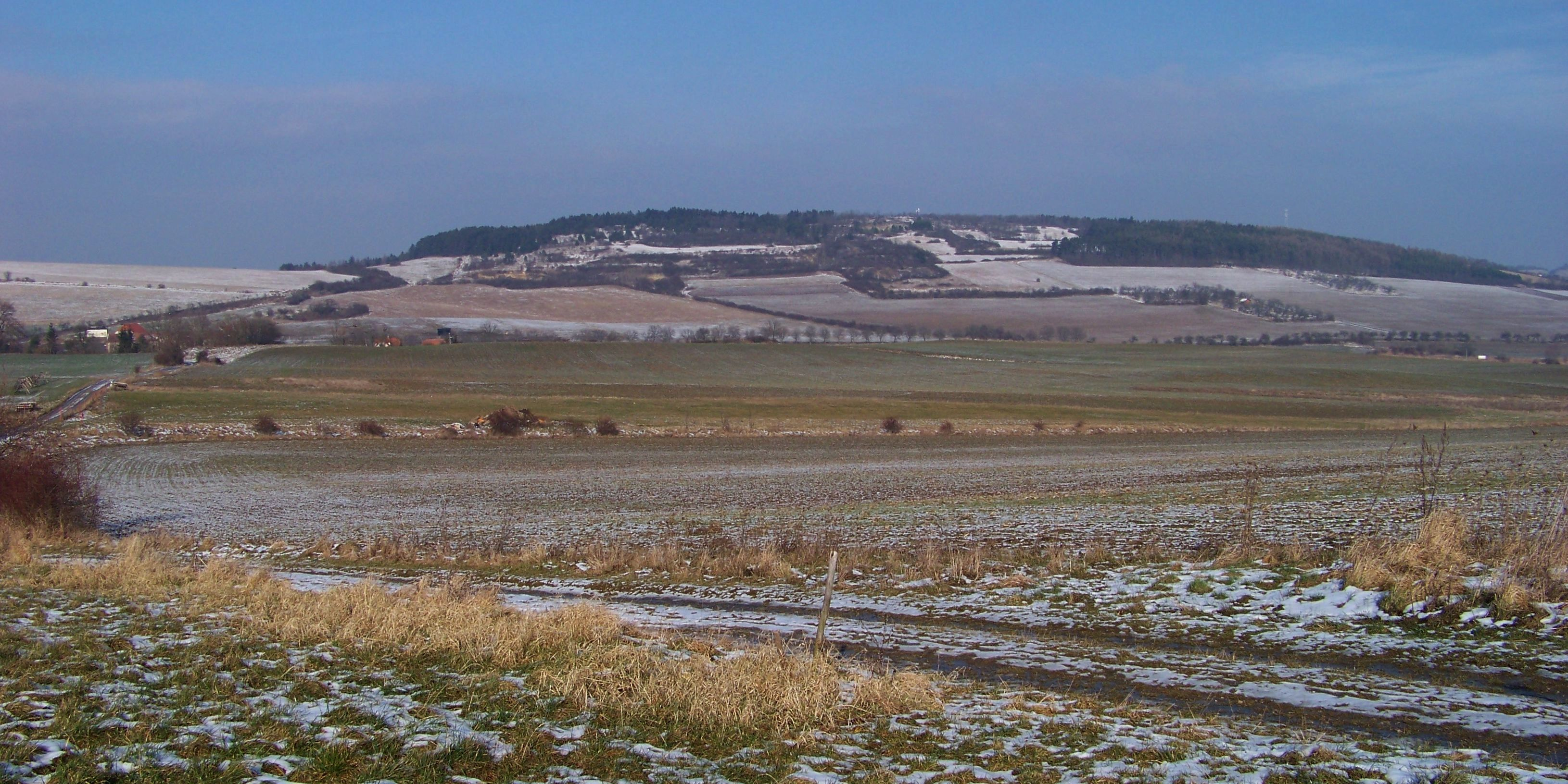 Suchomasty-Borek, Beroun District, Central Bohemian Region, Czech Republic. Lejškov hill.